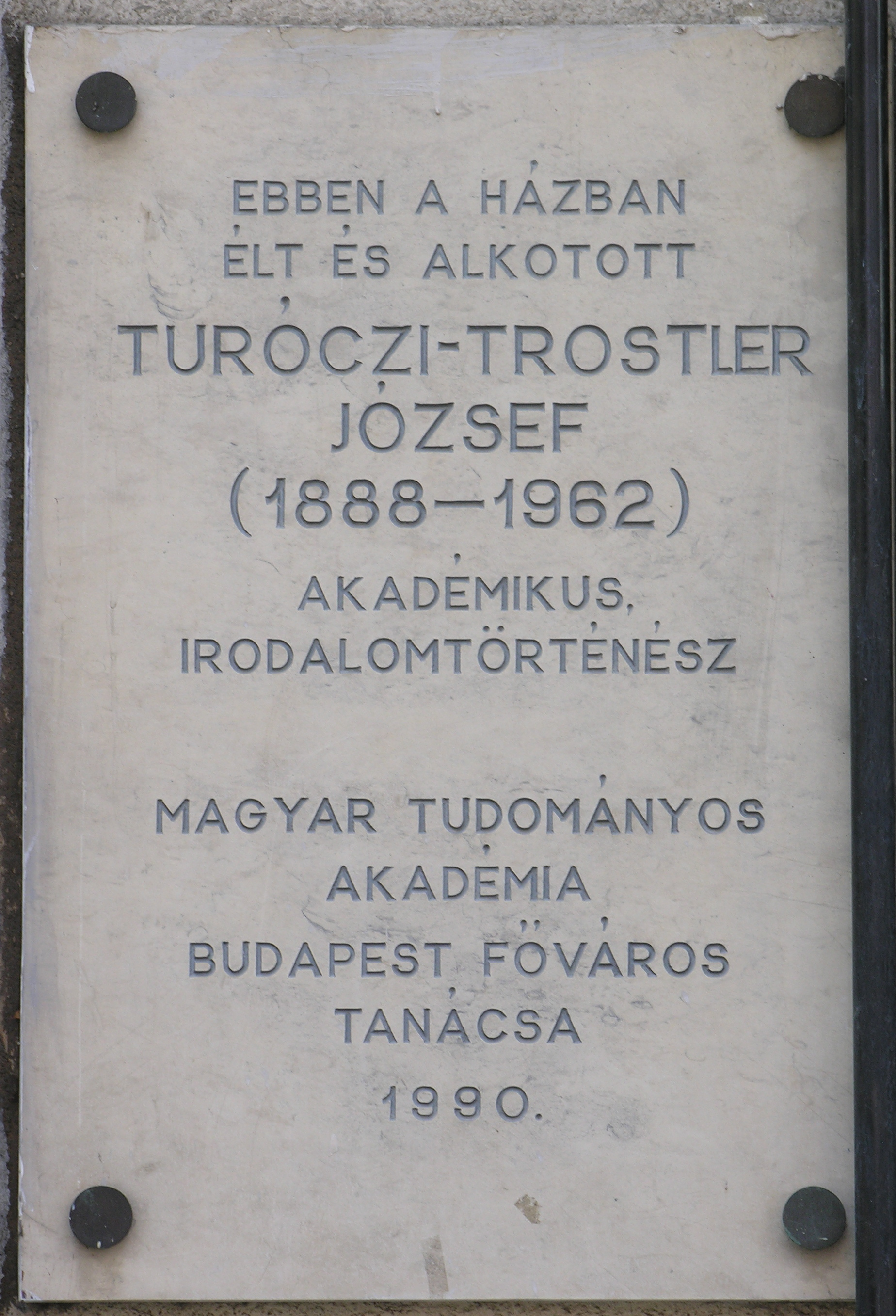 Commemorative plaque of József Turóczi-Trostler in Budapest District IX, Ráday Street No 33/b